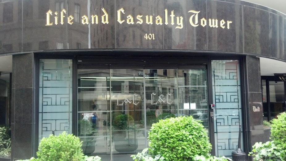 L&C Tower Entrance at 4th & Church in Nashville TN